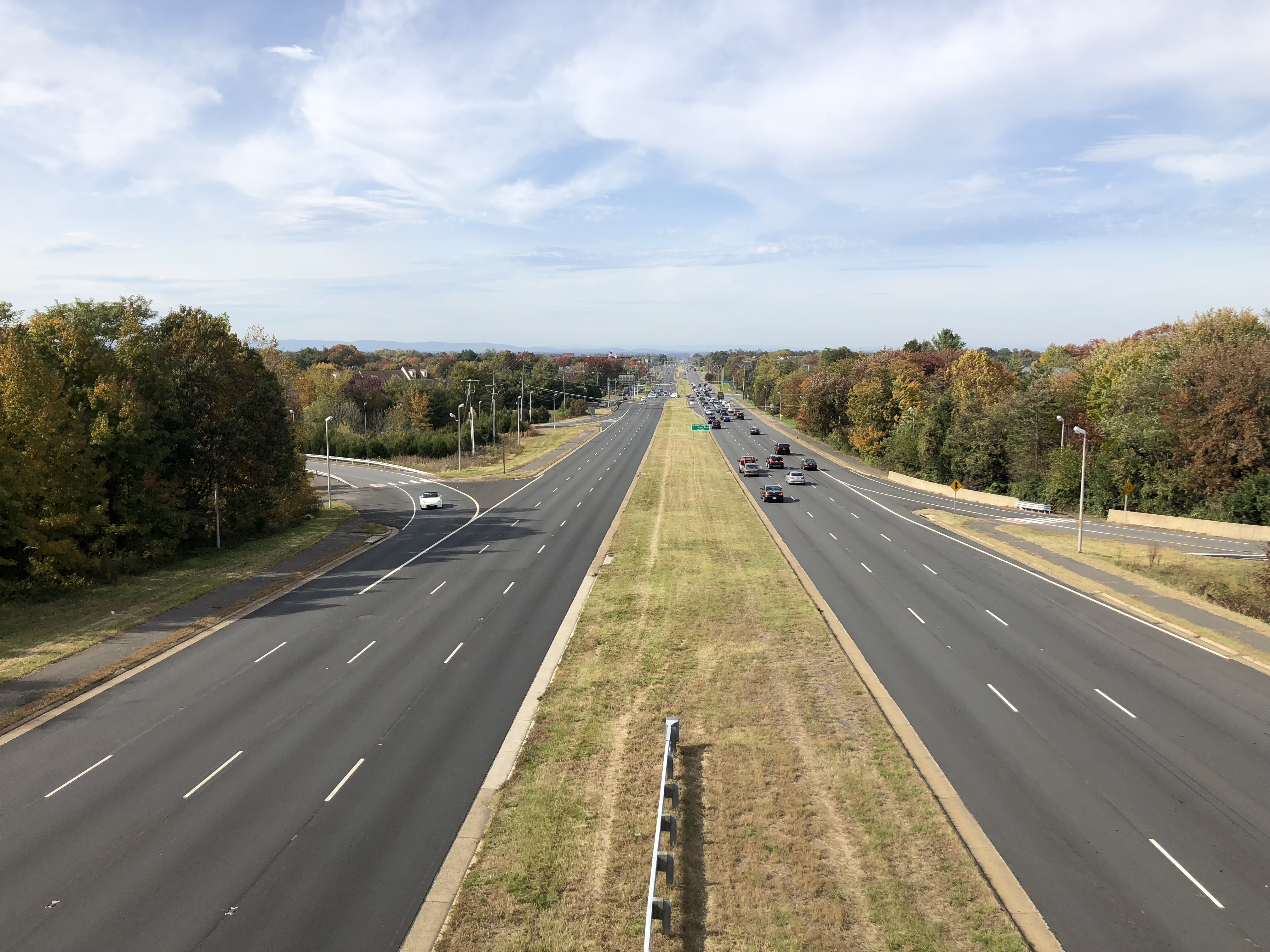 View west along U.S. Route 50 (Lee Jackson Memorial Highway) from the overpass for Virginia State Route 286 (Fairfax County Parkway) in Greenbriar, Fairfax County, Virginia